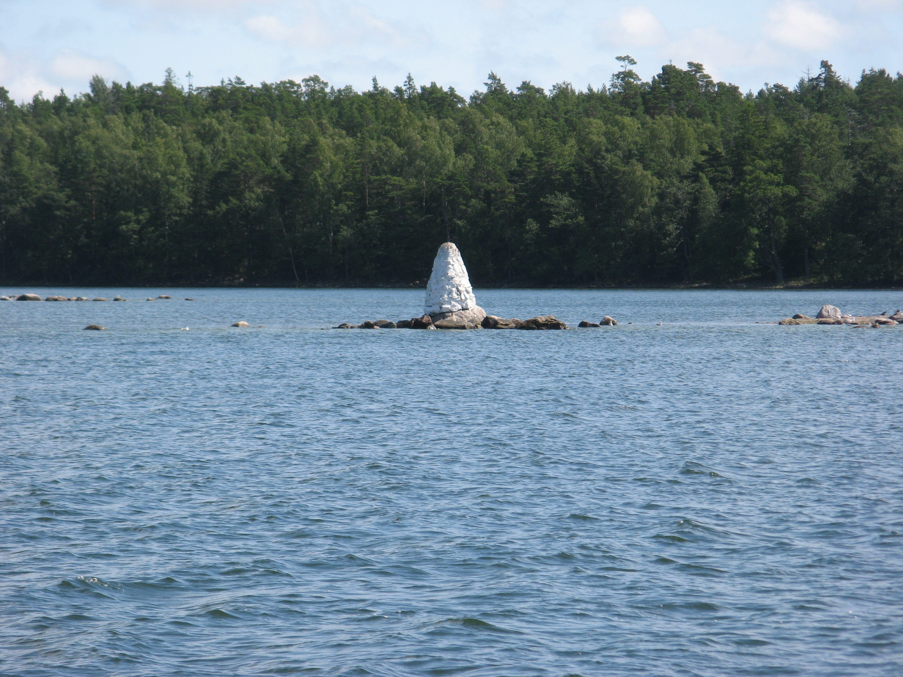 Sea cairn in the Finnish archipelago, between Houtskär and Korpo in the Archipelago Sea. Cairns like this are used as navigation aids and usually mark a place that is safe to approach, e.g. during conditions of reduced visibility. They are maintained as other sea marks but are given no official function. Many cairns of this or similar type have (since the 1990's?) been replaced by big white signs.